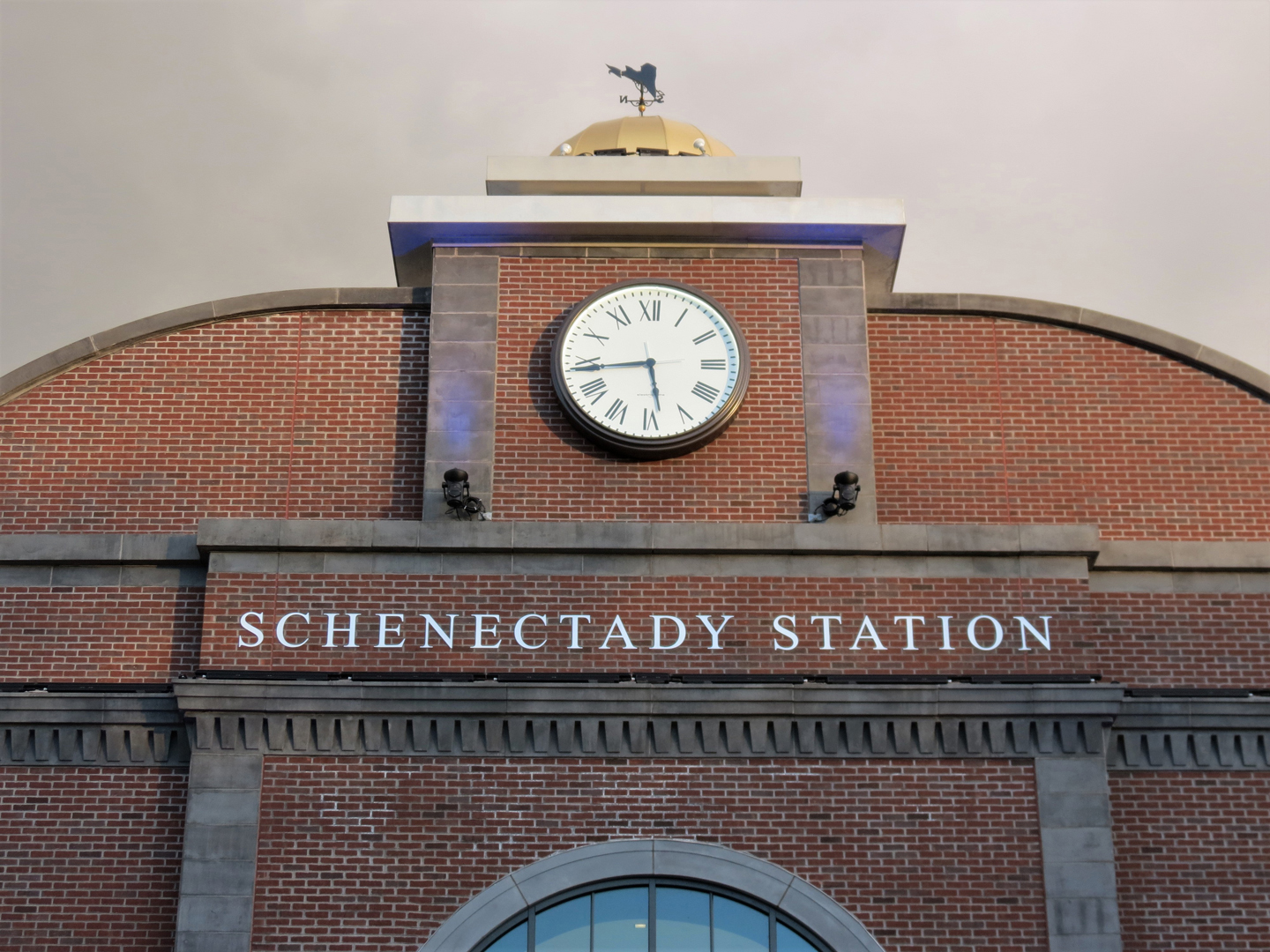 Front of new station, finished in Oct 2018